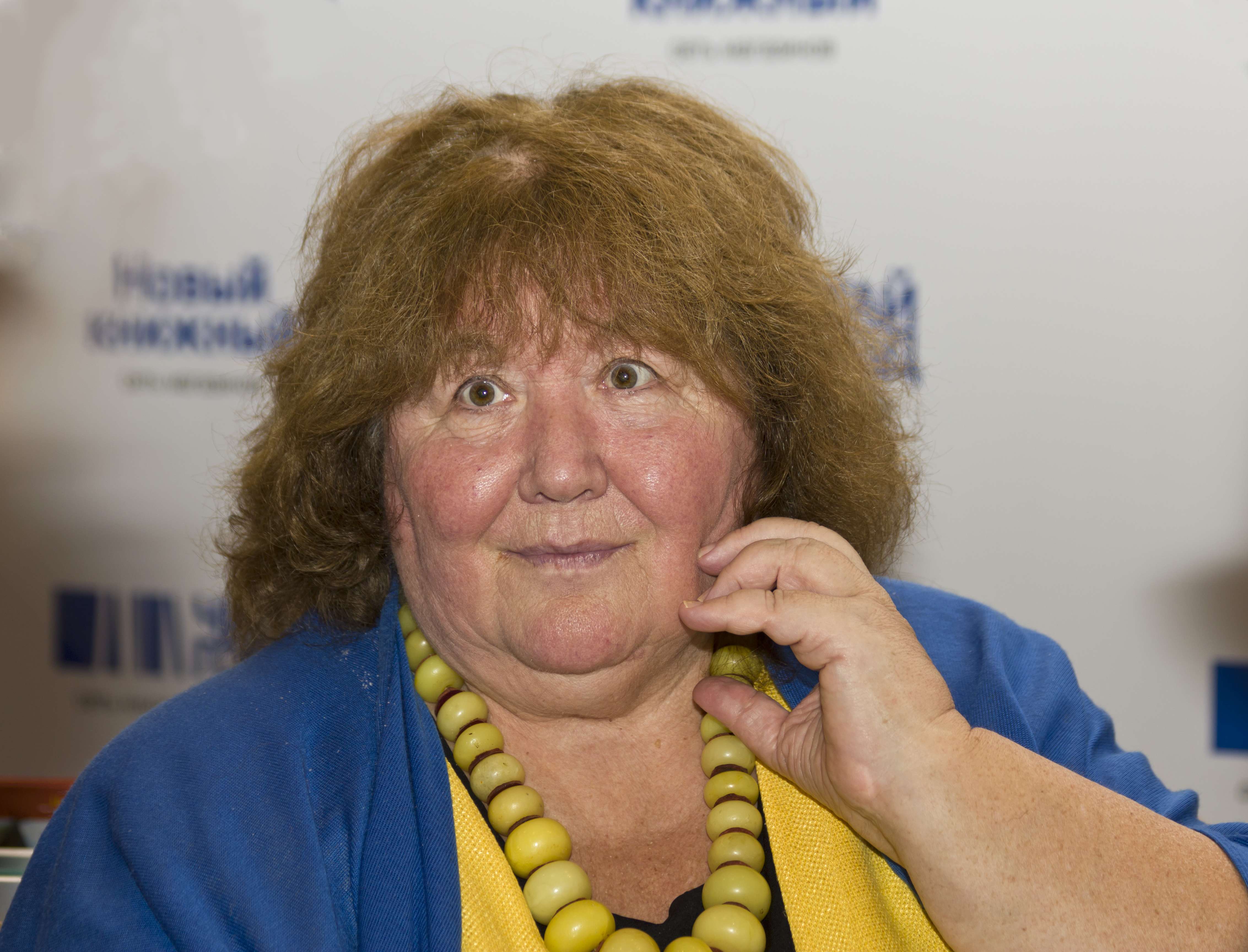 Viktoriya Tokareva, Russian novelist. Taken at Moscow International Book Fair 2013.